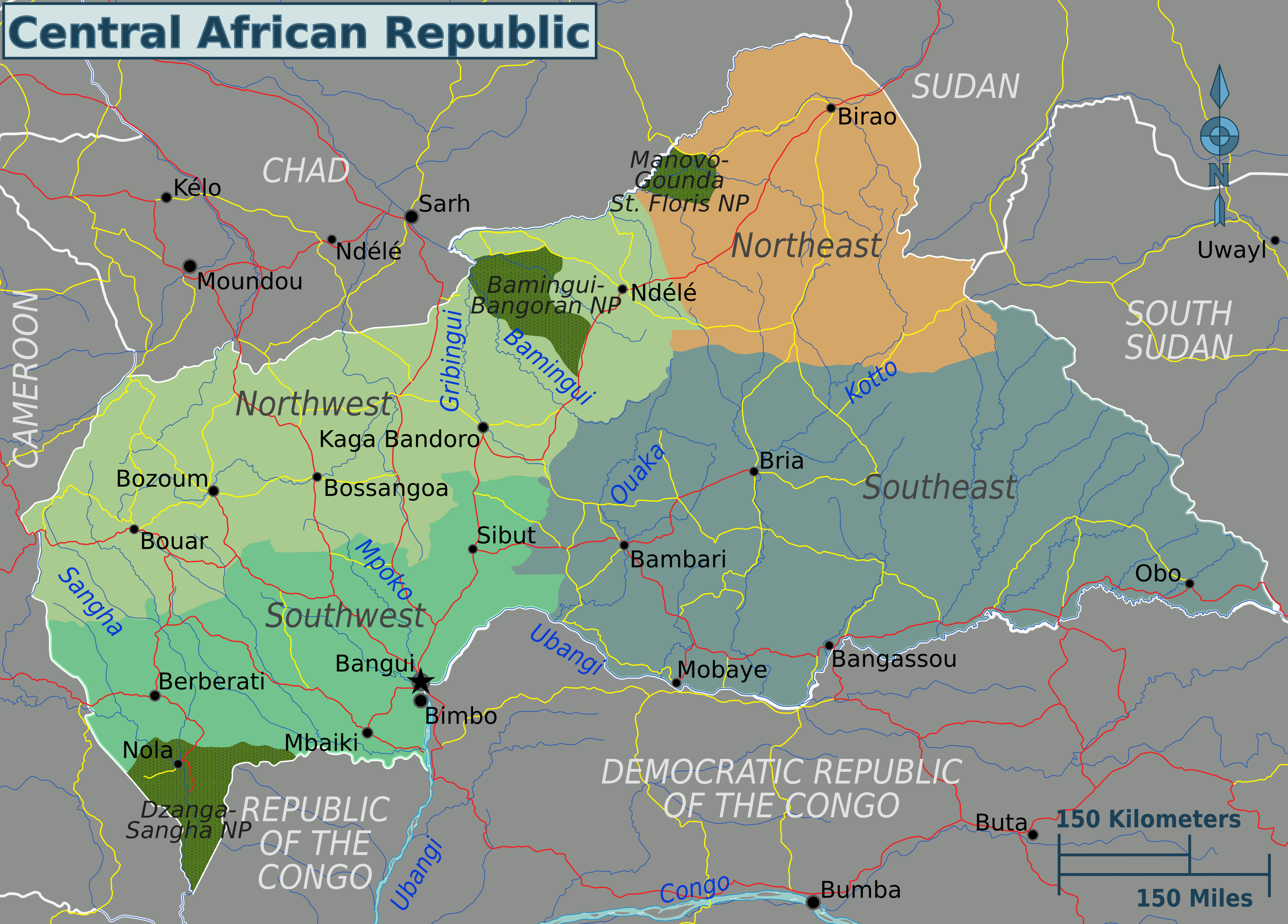 Central African Republic regions map. English version, Central African Republic Map of: Central African Republic¤.